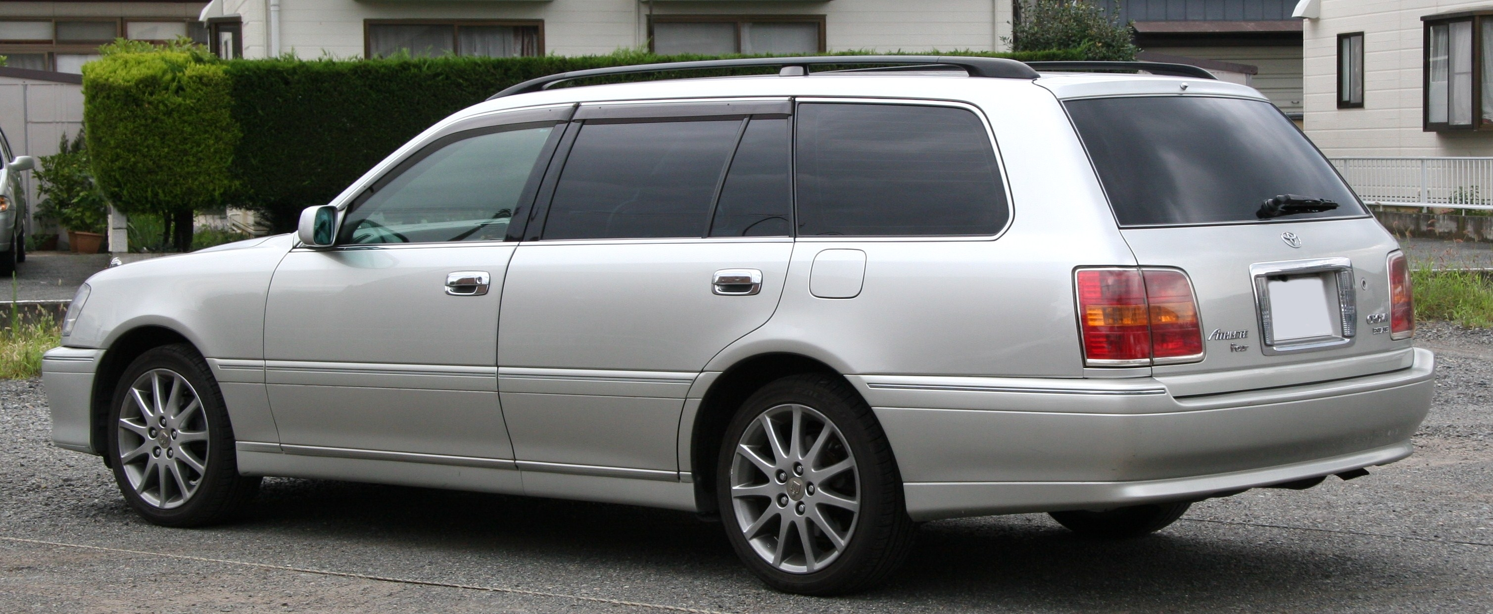 Toyota Crown Estate